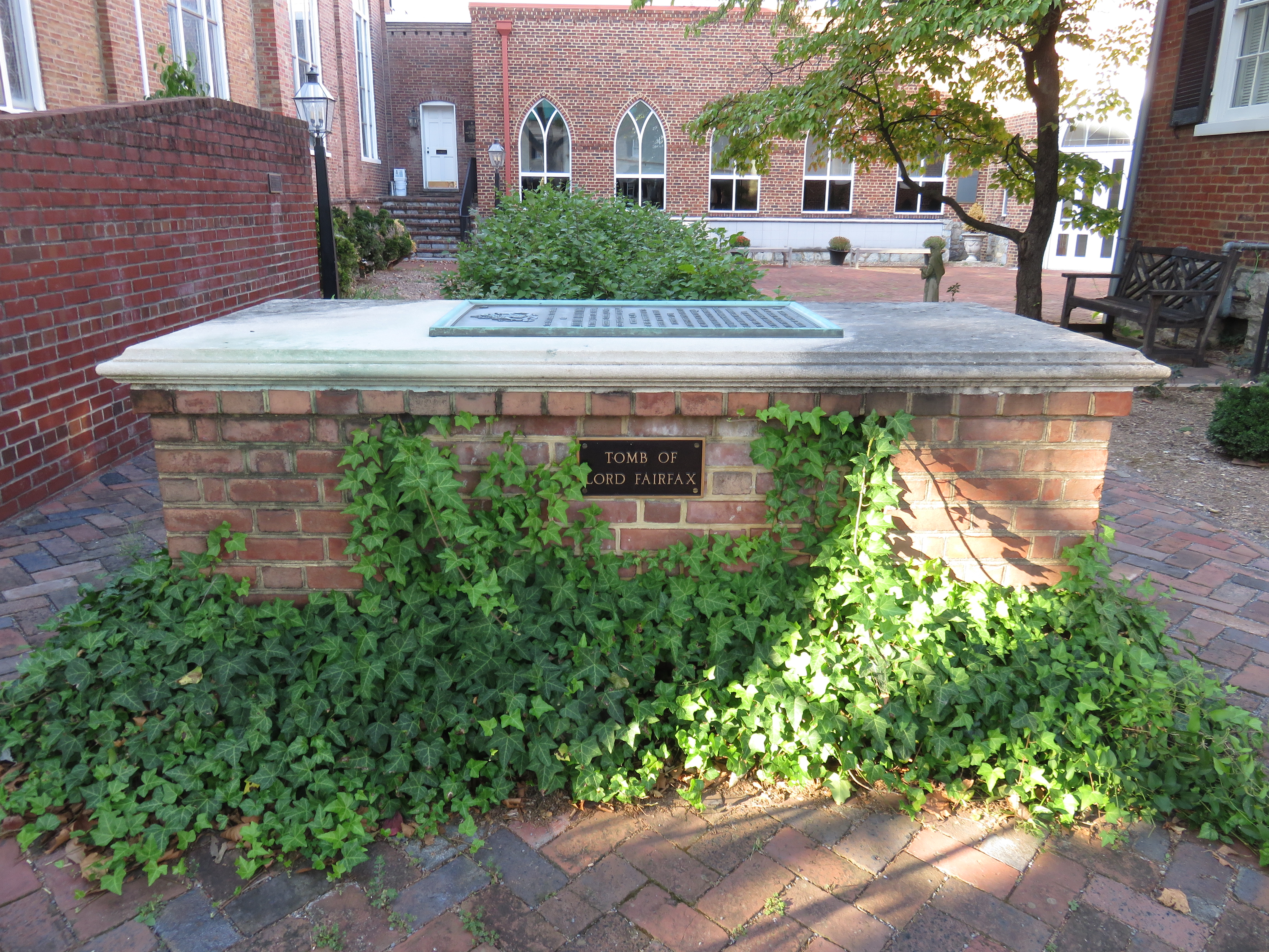 Tomb of Lord Fairfax outside Christ Episcopal Church in Winchester, Virginia in 2019